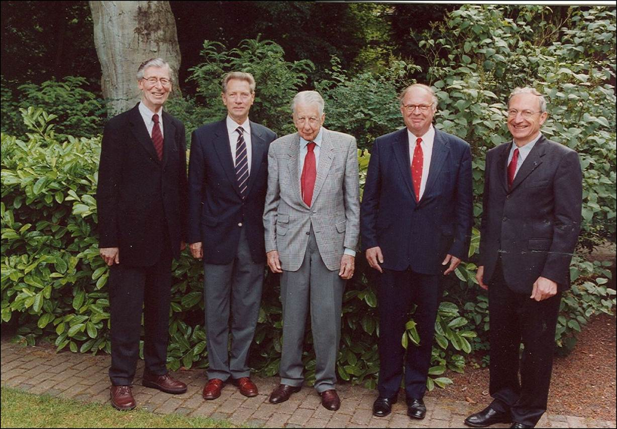 Former rectors and founding father of NIAS Wassenaar, 2002. Left to right: Henk Misset, Dick van de Kaa, Bob Uhlenbeck, Henk Wesseling, Wim Blockmans